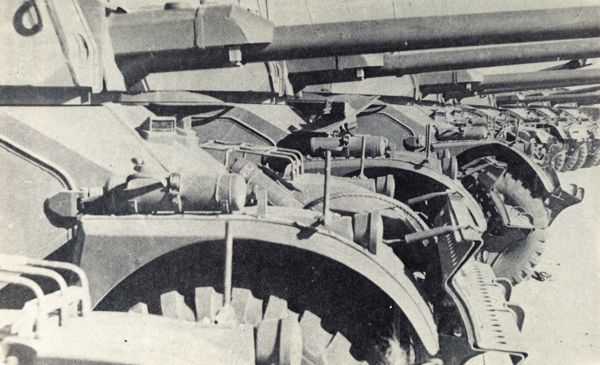 Photograph of Moroccan Eland Mk6 armoured cars captured by militants of the Polisario Front during a battle with the Royal Moroccan Army (FAR) in the Ouarkaziz Mountains. This was first published in March, 1980 in a booklet entitled, The Collusion of Rabat and Pretoria, by the Polisario Information Department in Tindouf, Algeria. The armoured cars currently reside there at the Polisario Museum.